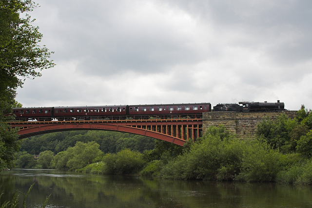 Victoria Bridge On the Severn Valley Railway.